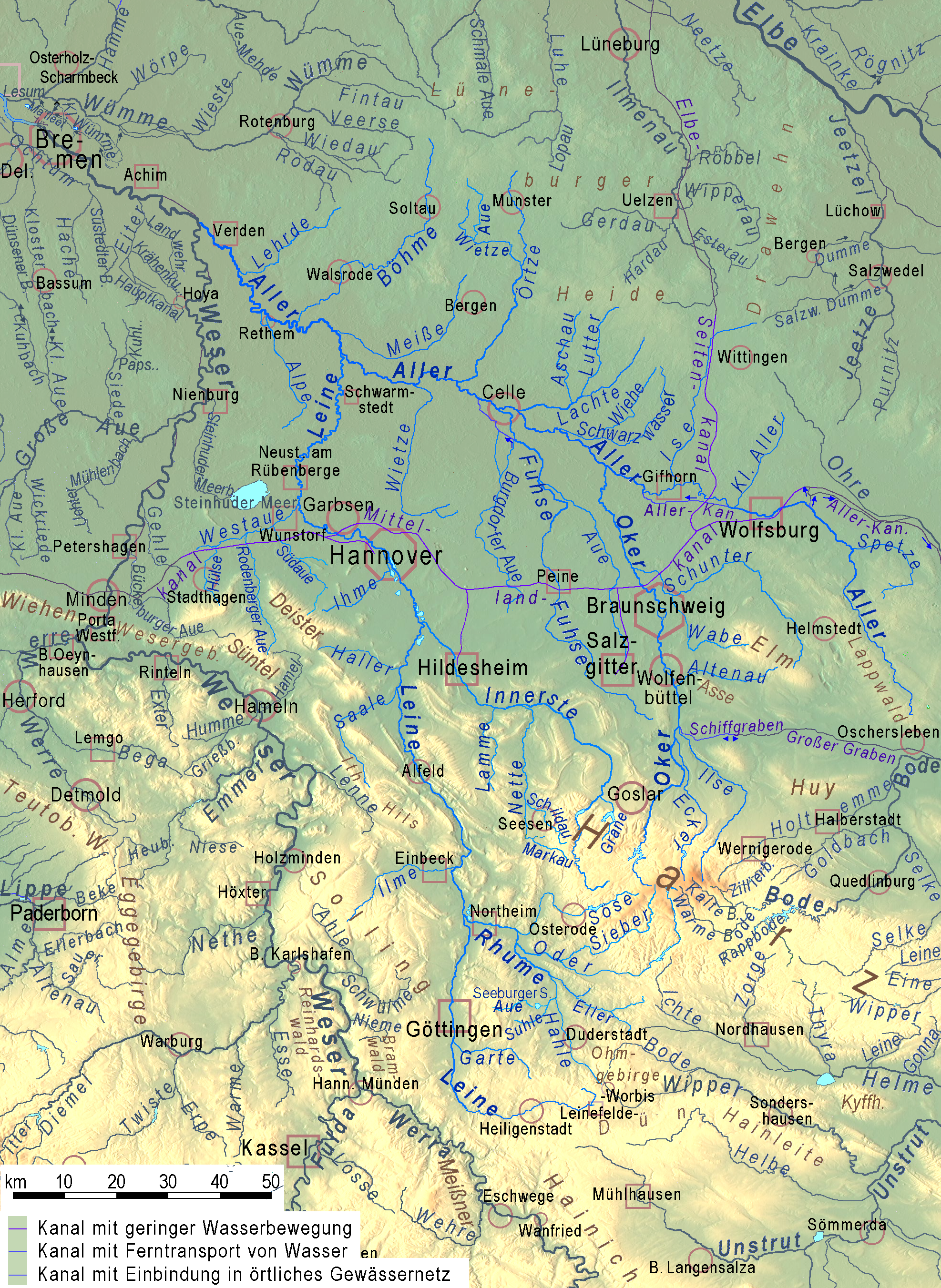 Topographic map of Weser River system, German version